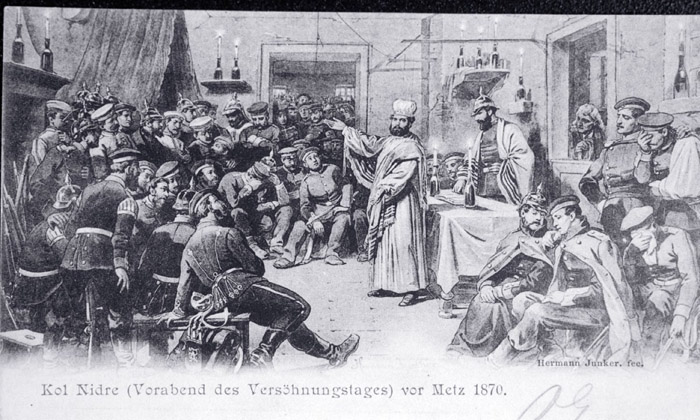 Drawing by Hermann Junker of the luxembourgish rabbi Isaac Blumenstein during Kol Nidre service near Metz for Jewish soldiers during the Franco-German War.